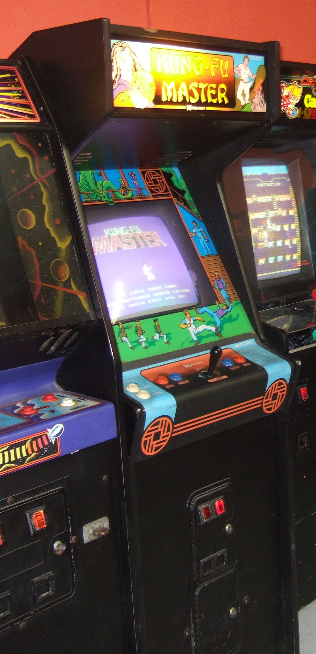 Arcade cabinet of Kung-Fu Master, derivative cropped from File:Flashbacksarcade-f-goodrob13.jpgFlashbacks arcade, Seaside Heights, NJ, 7/25/09 - 8 of 20